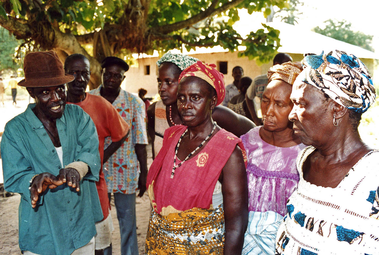 Some residents of Mpack village in the Ziguinchor Region of Senegal